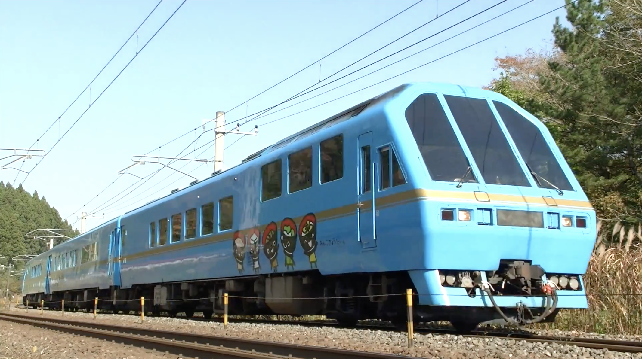 JRE Kina 58 "joyful train" Kenji in seasonal rapid service on Tohoku Main Line, between Shinainuma and Atago Stations, Matsushima, Miyagi prefecture